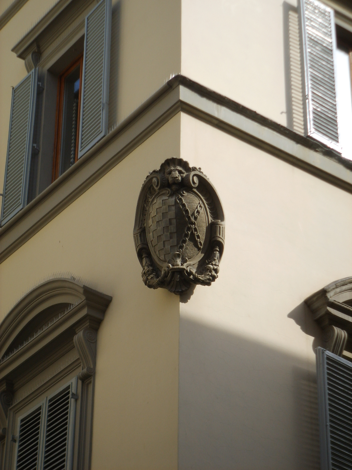 Coat of arms of Mori Ubaldini (left, means husband) + Alberti (right, means wife)